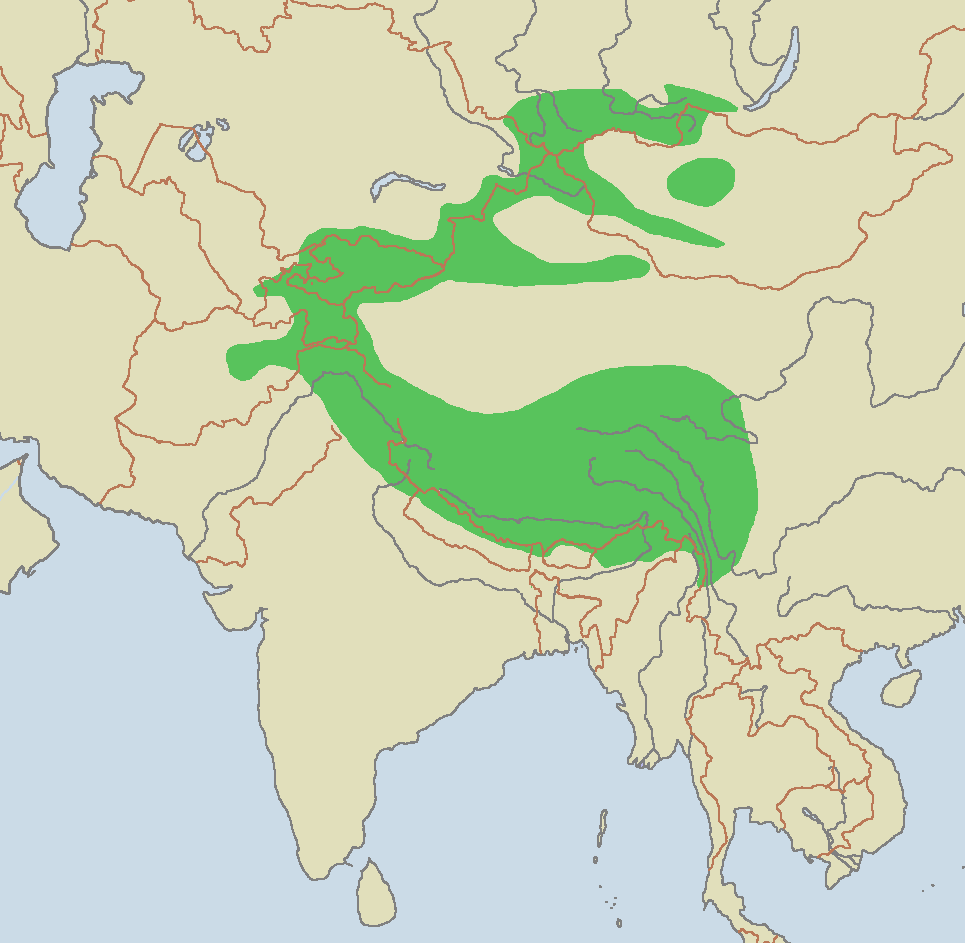 The range of Uncia uncia. Made starting with Brion VIBBER's map based on [1].